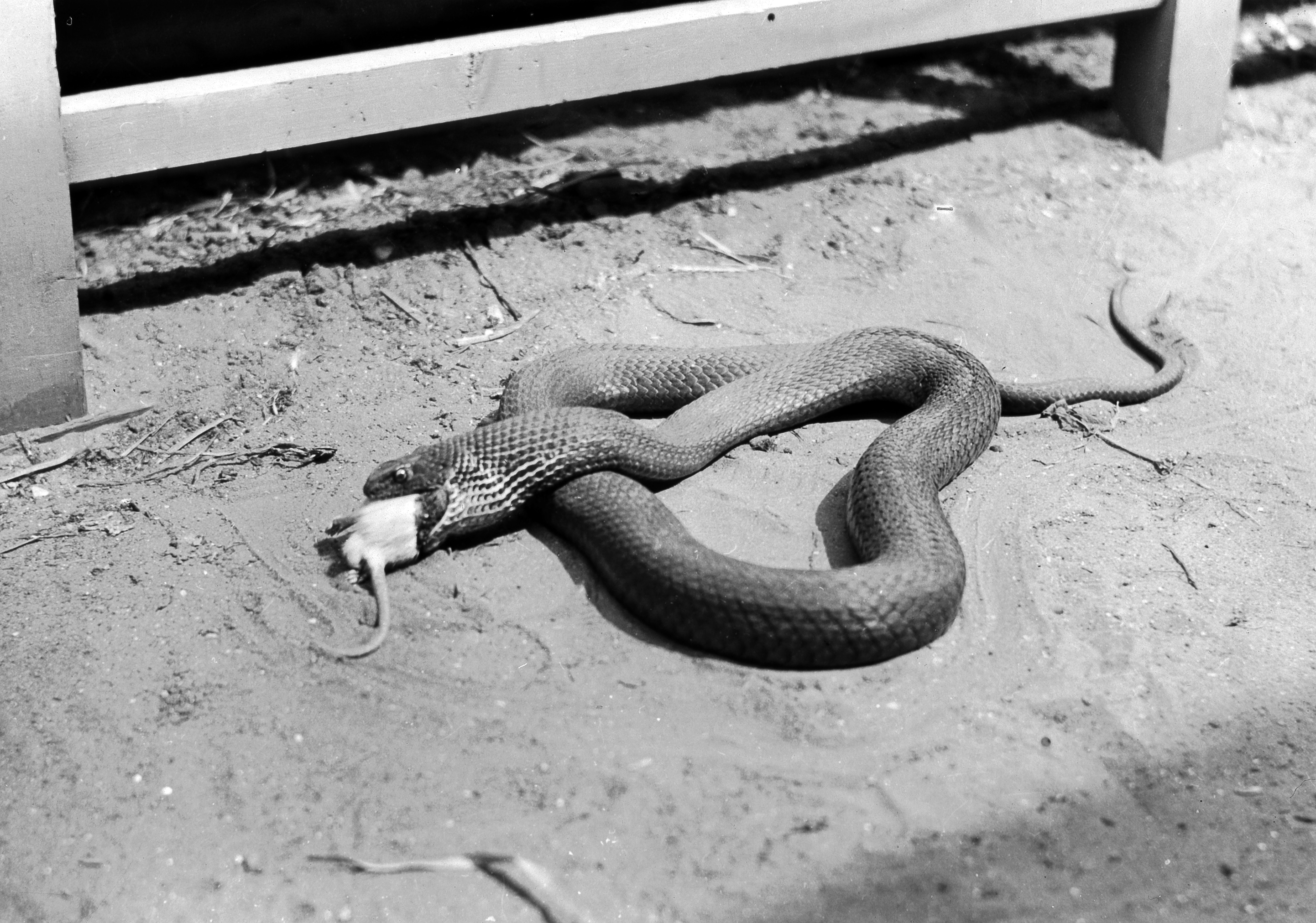 Snake eating mouse (or a rat - see talk page).